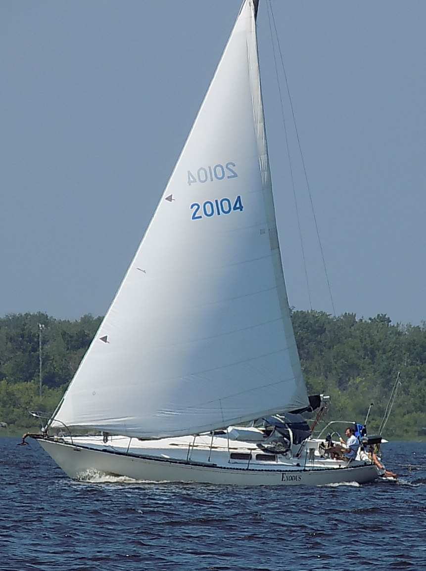 A C&C 33-1 sailboat named Exodus.